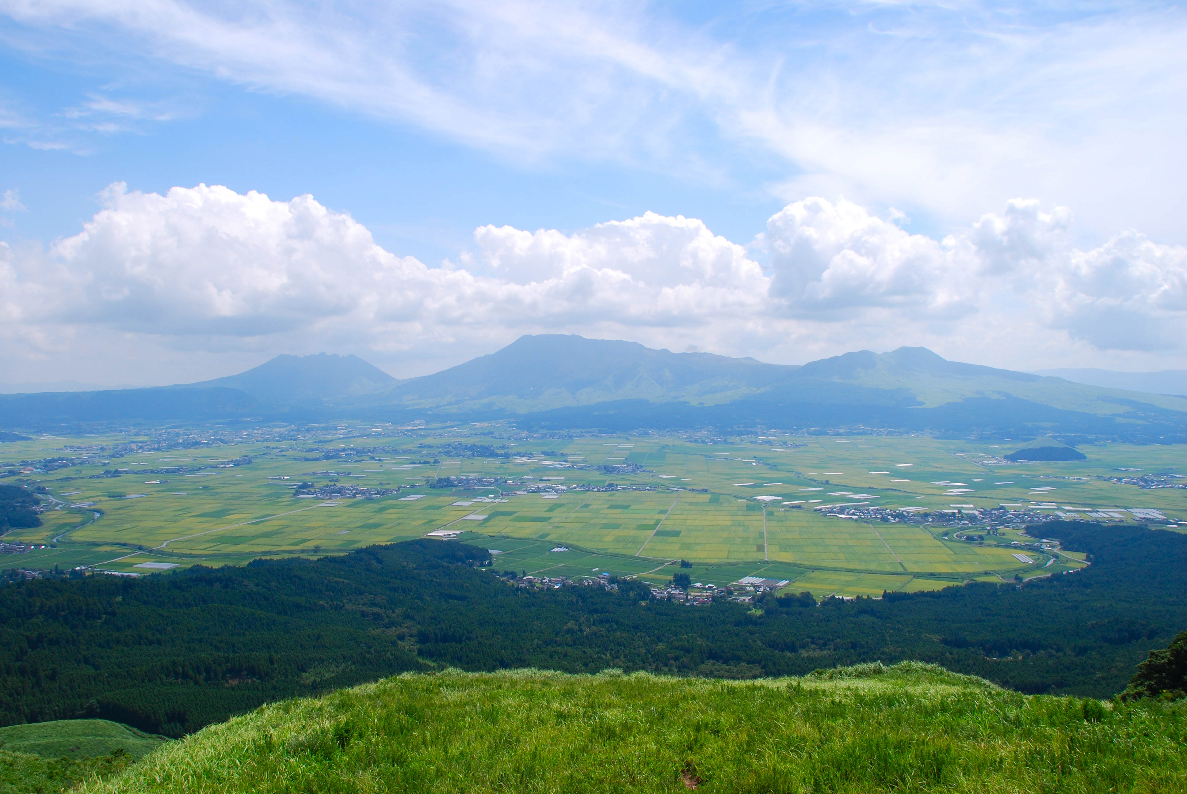 Mt. Aso in Asocaldera from edge of caldera